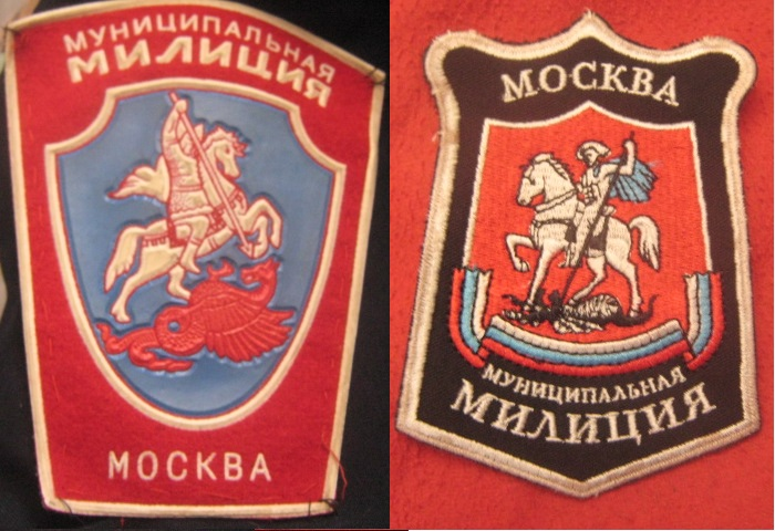 Moscow Militia sleeve patches issued from 1990s-?